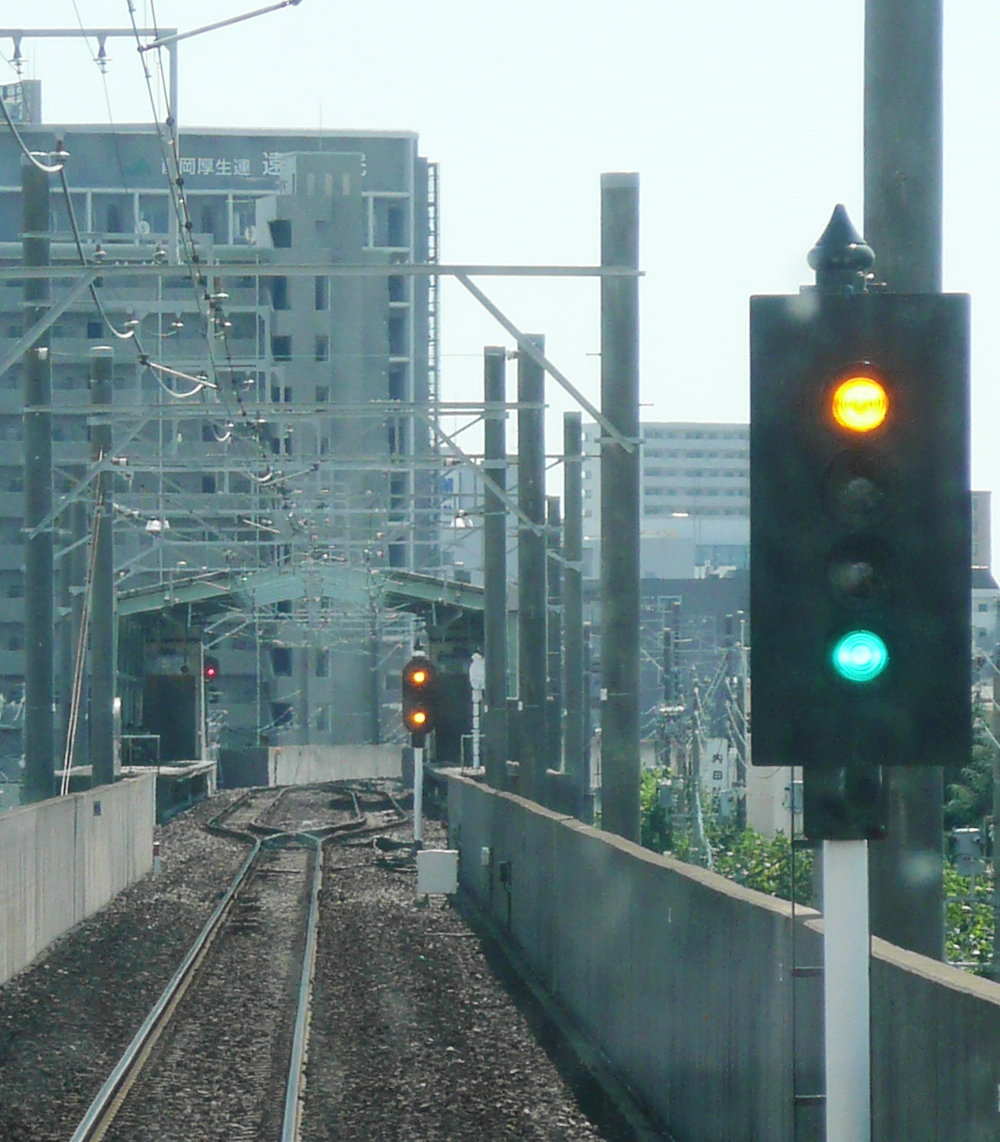 Distant signal of Japan, between Sukenobu station and Hachiman station of Enshu Railway Line.